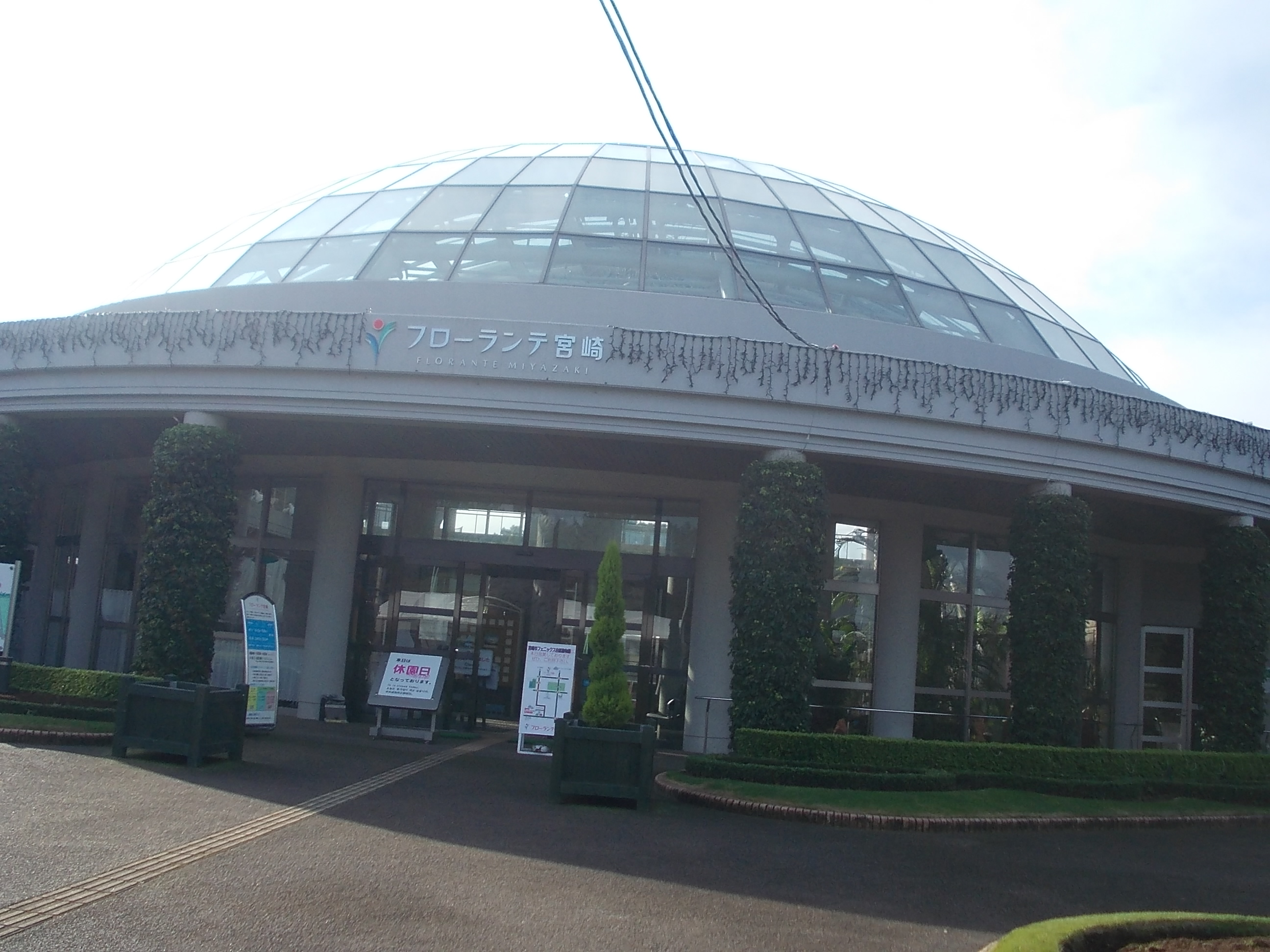 Florante Miyazaki city park and botanical gardens located in Phoenix Seagaia Resort, Miyazaki, Miyazaki, Japan